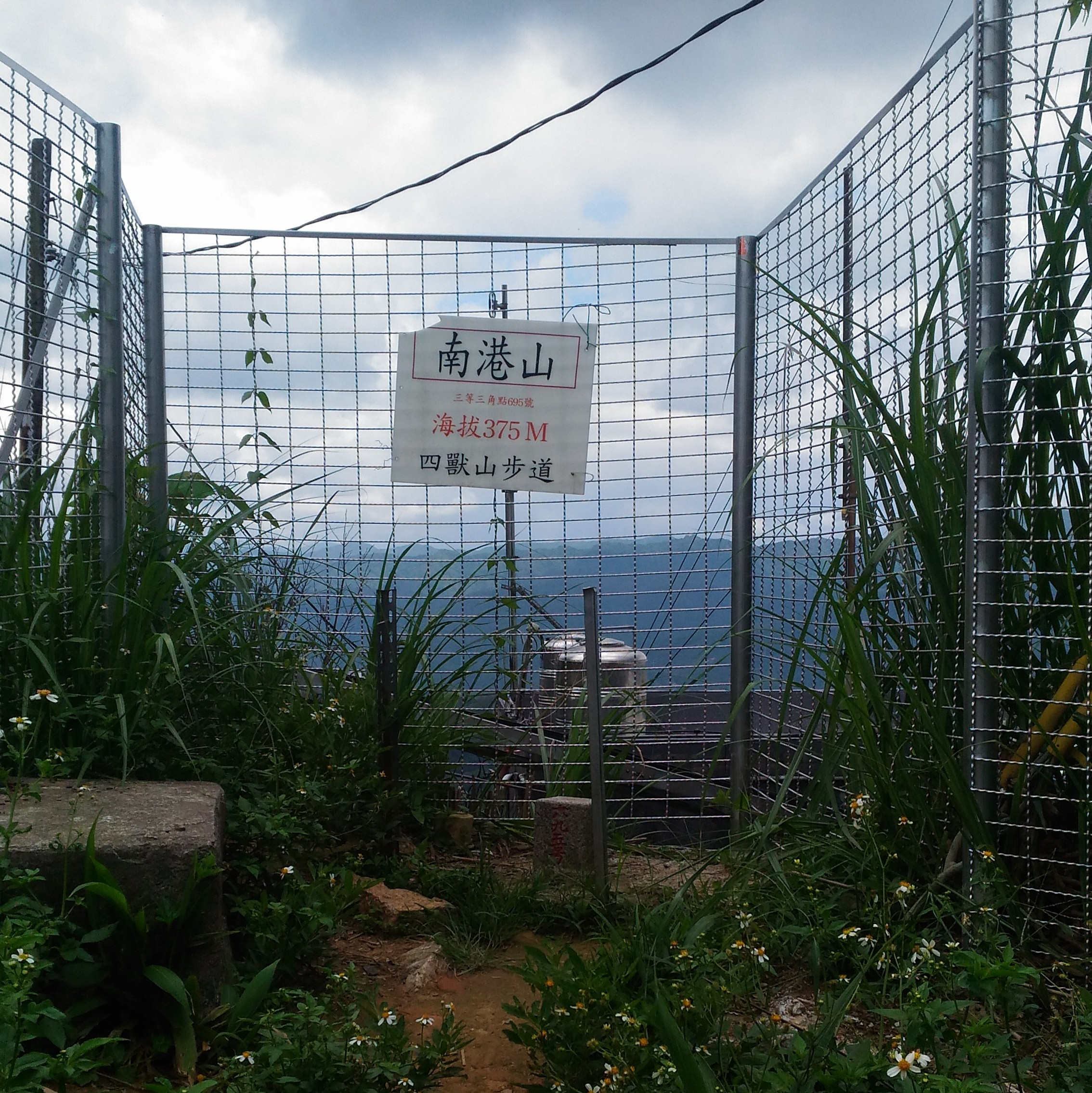 3rd class triangulation point in Nangangshan.